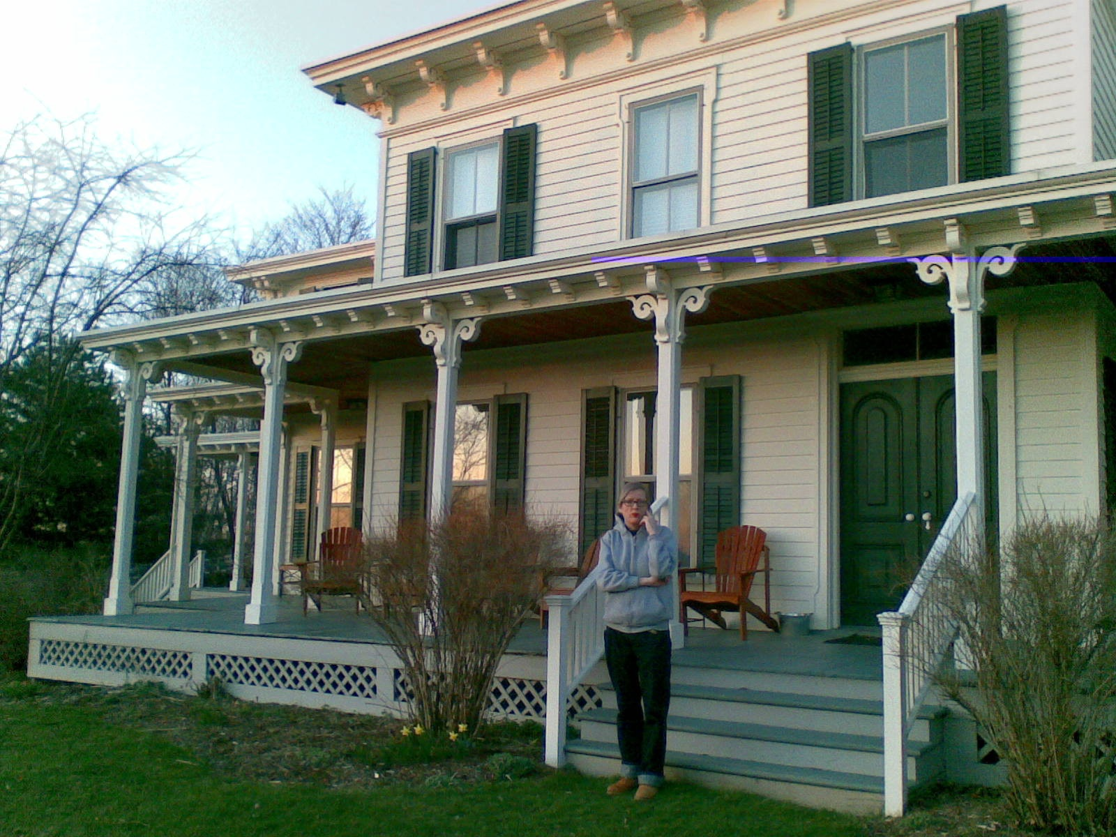 Kristin Omarsdottir